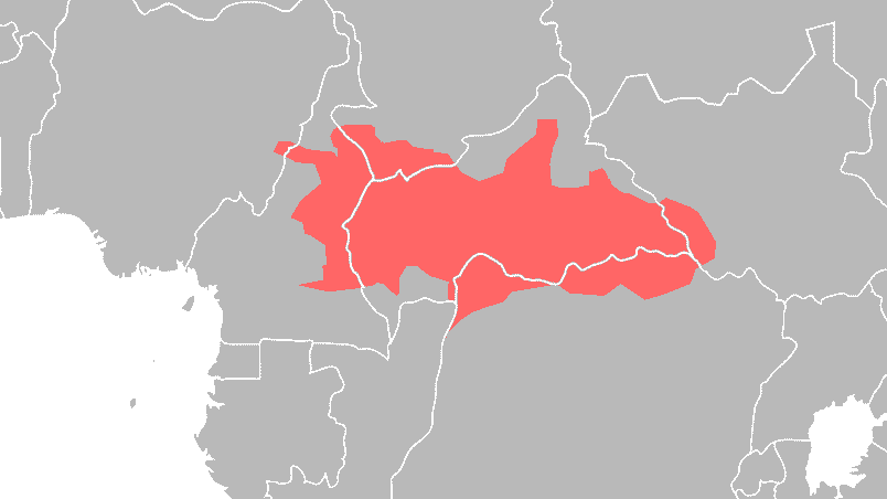 Adamawa-Ubangi, based on File:Niger-Congo map.png